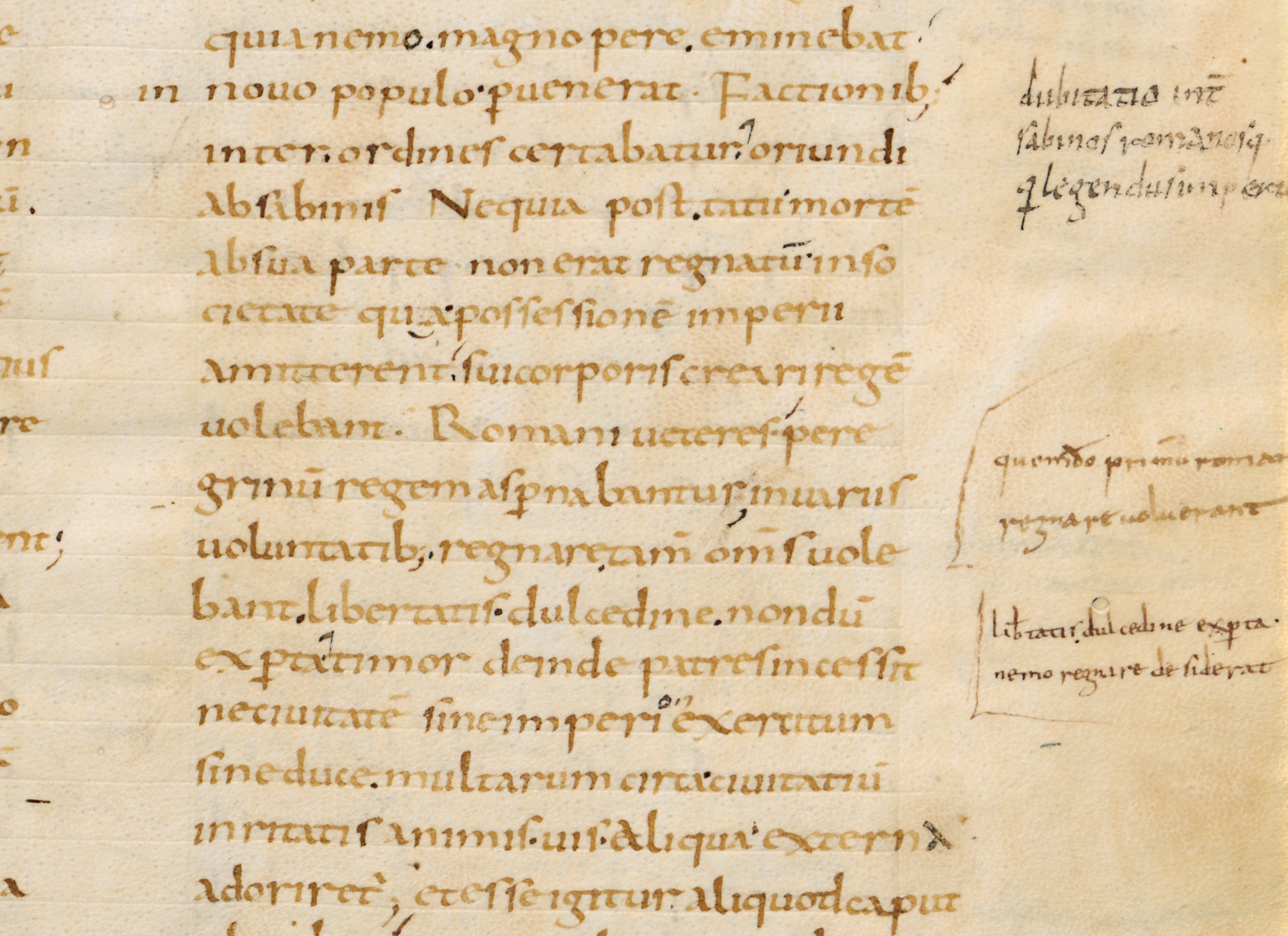 Livius, Ab urbe condita, 10th-century manuscript with marginalia by Ratherius. Florence, Biblioteca Medicea Laurenziana, Plut. 63.19, fol. 7r.